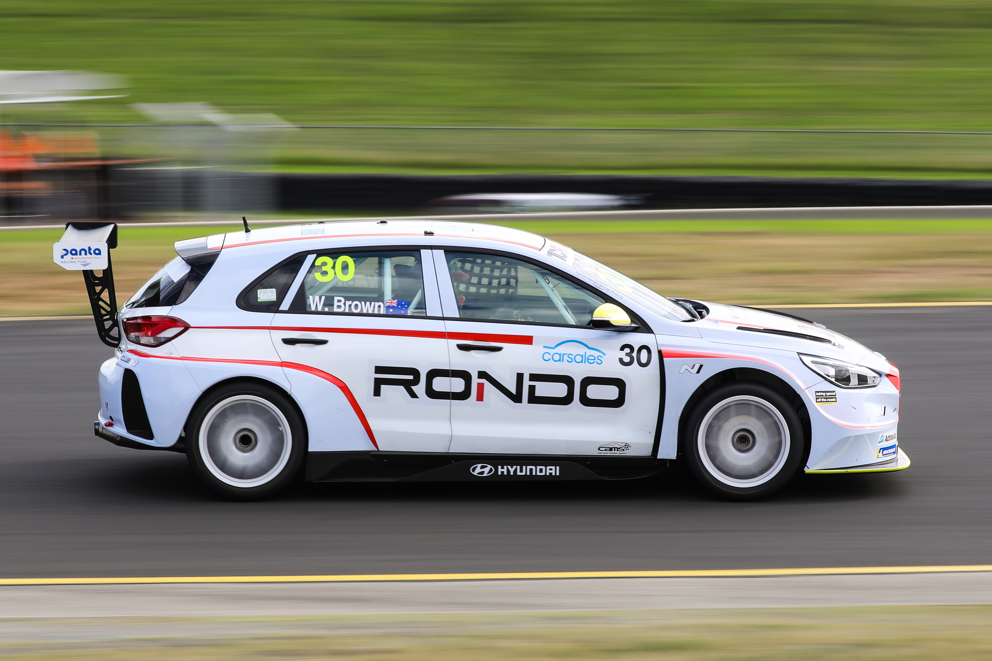 Will Brown (Hyundai I30 N TCR) during Race 2 of the 2019 TCR Australia round at Sydney Motorsport Park.